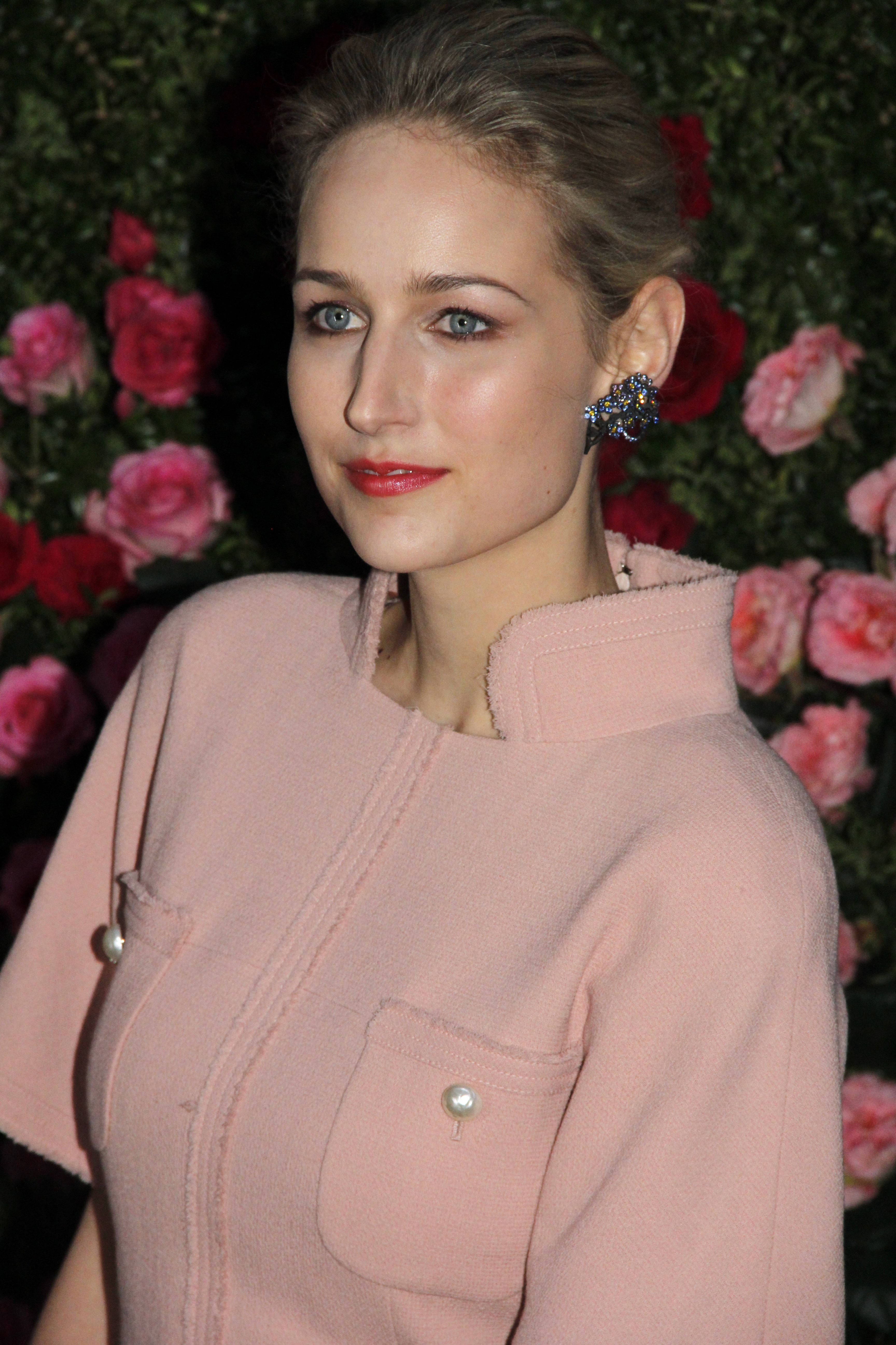 Leelee Sobieski at the 7th Annual Chanel Tribeca Film Festival Artists Dinner 2012.